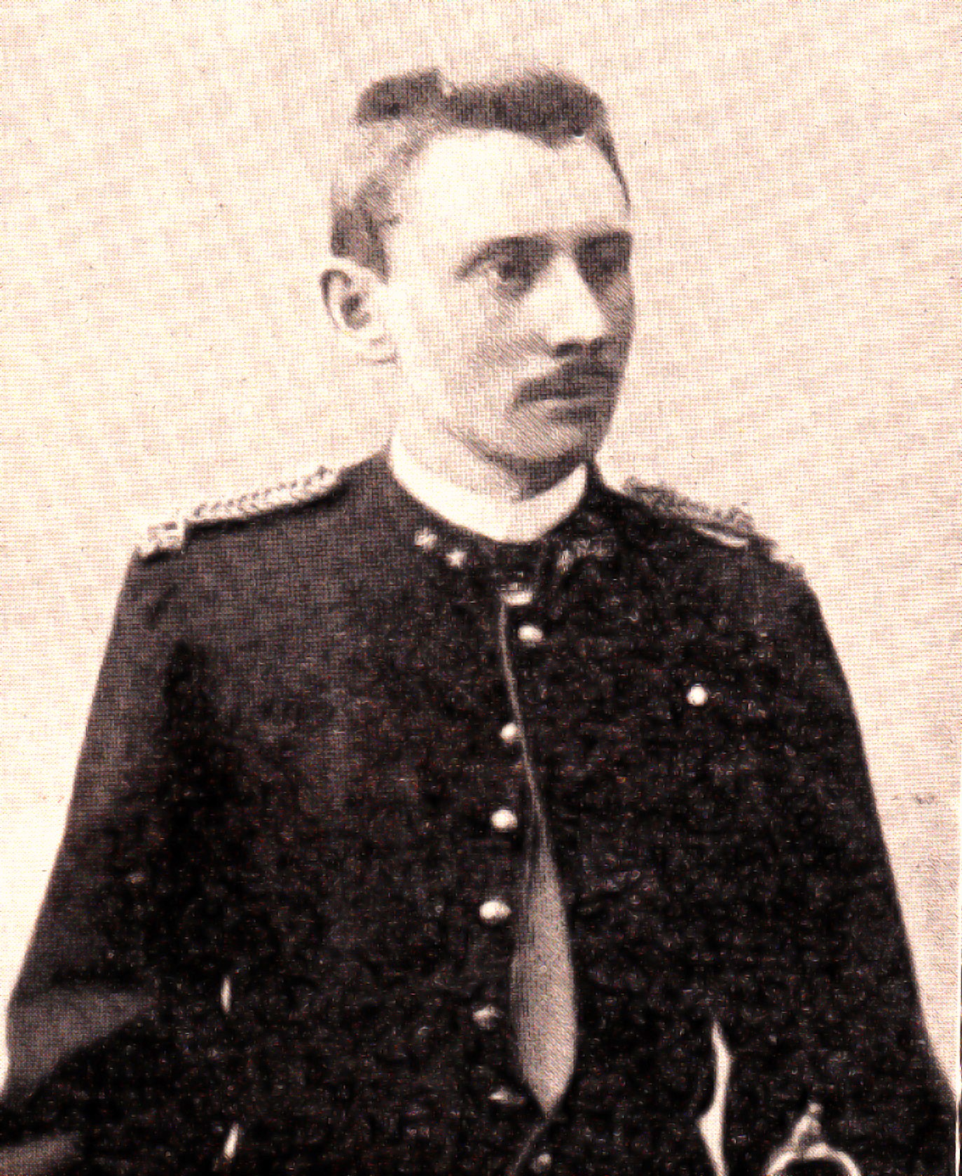 Luitenant Vuijk